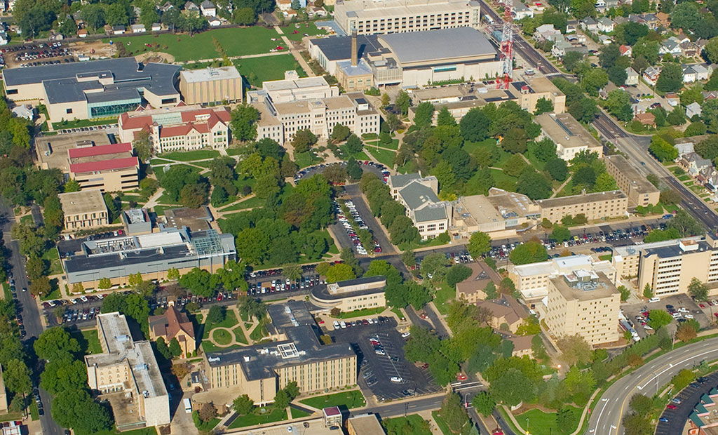 Aerial view of the Bradley University campus, Peoria, Illinois. At left, Bradley Avenue; at bottom right: University Street; at top right: West Main Street.